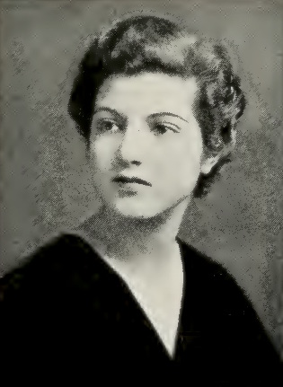 Caroline Flora Berg, later known as actress and theater producer Caroline Burke Swann